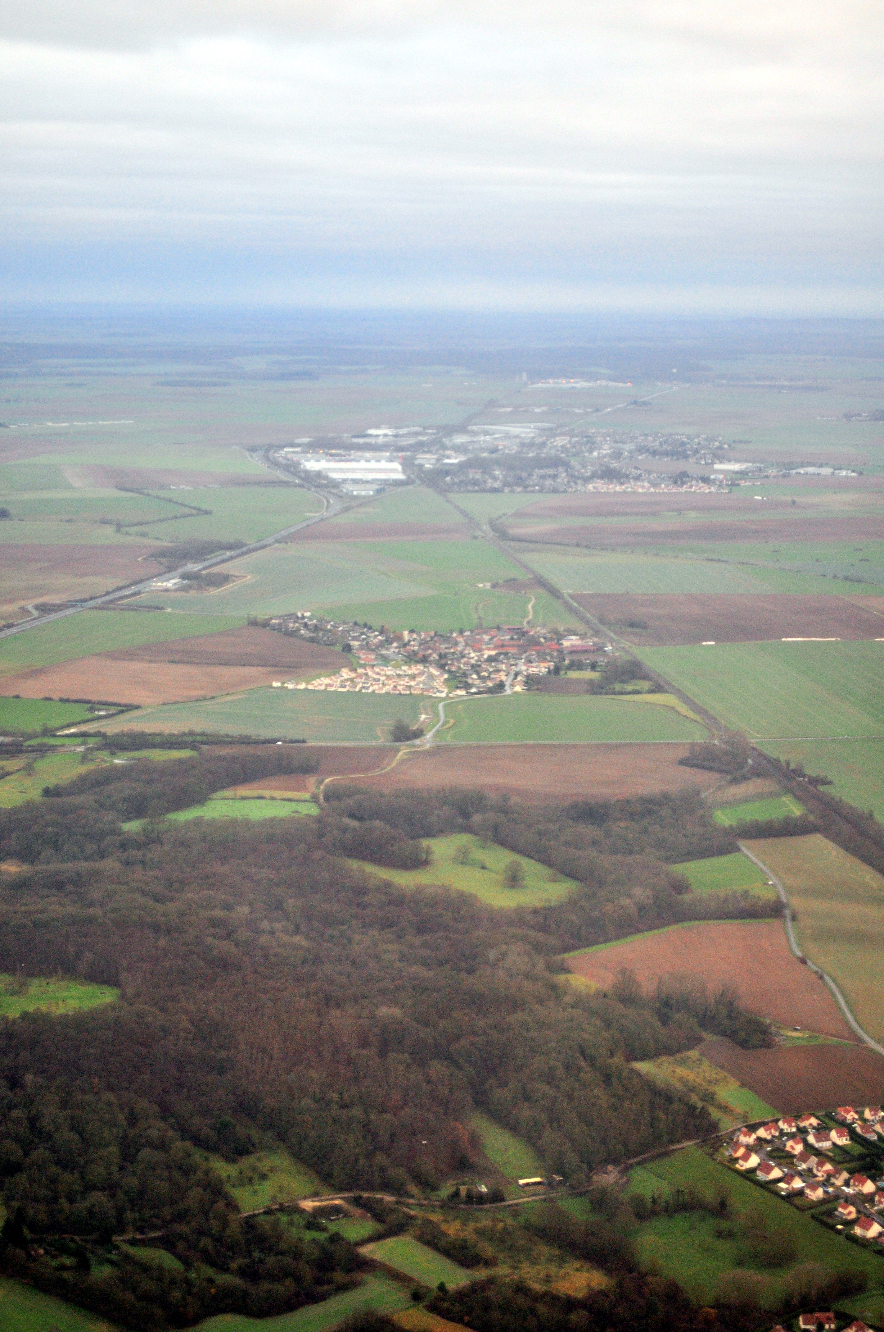 Aerial photograph of Rouvres (Seine-et-Marne), Lagny-le-Sec (Oise), and Le Plessis-Belleville (Oise), France.